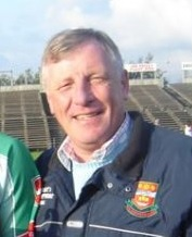 Gerry Leonard 2005